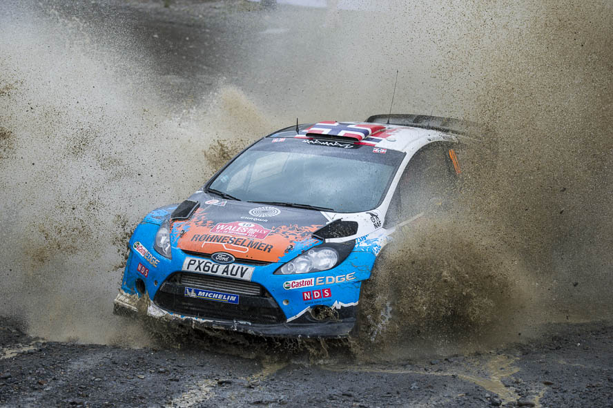 Wales Rally Great Britain 2012 Adapta WRT,Adapta World Rally Team,Ford Fiesta RS WRC,Hafren Sweet Lamb 2,Jonas Andersson,Mads Östberg,Motorsport,Rally,Rallye,SS5,WP5,WRC,Wales Rally GB